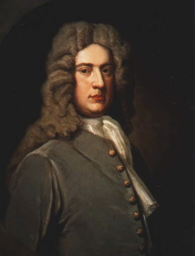 Col. Richard Lee I, Esq. (1618-1664) the "Immigrant" artist unknown downloader is a descendant of Col. Richard Lee I, and a member of the Society of Lees' of Virginia.